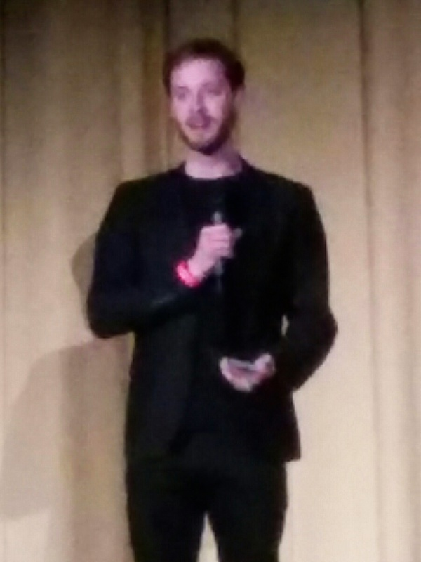 Stephen Dunn at a Q&A session for Closet Monster in San Francisco, California, United States